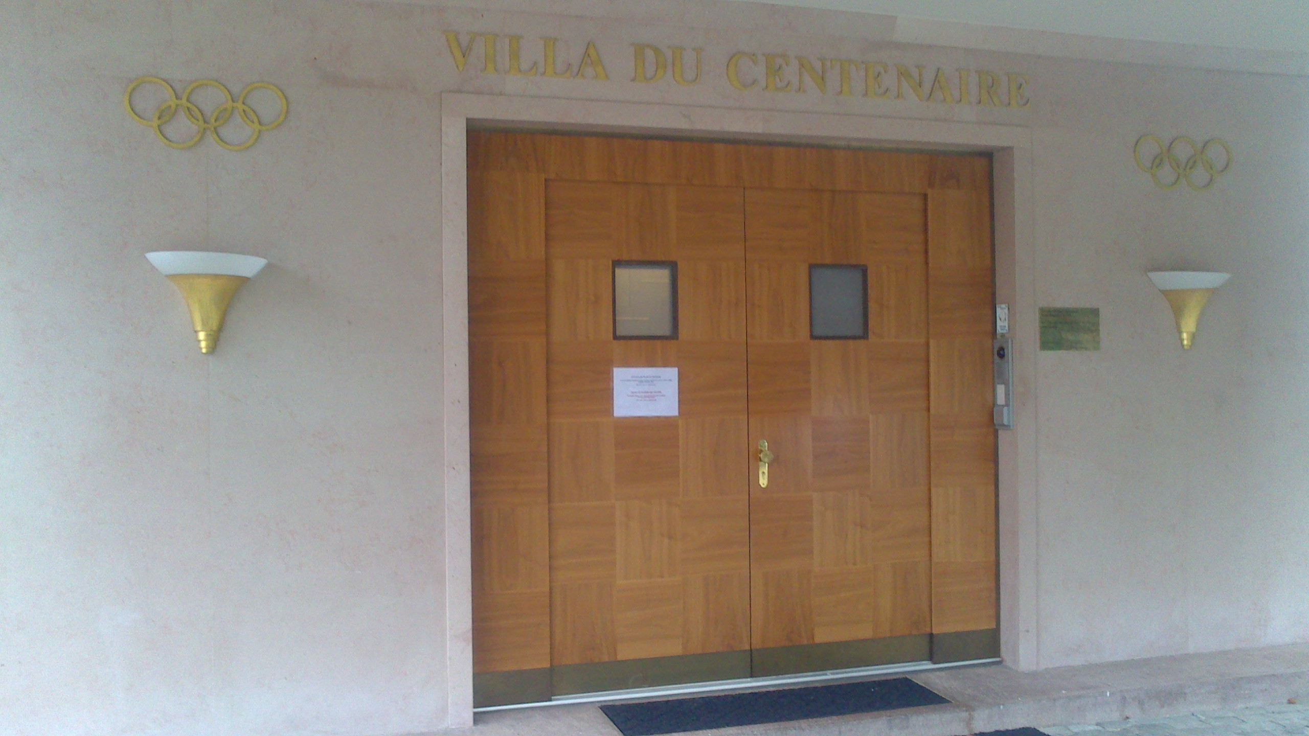 The entrance to the Villa du Centenaire in Lausanne, which houses the Olympic Studies Centre.